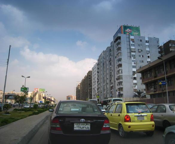 Traffic Jam in Ramadan is more than the normal From El Nasr Road